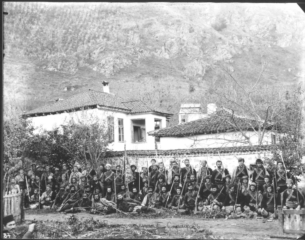 United cheta of Boris Sarafov and Dimitar Dechev